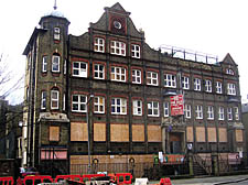 Lyndhurst Hall before demolition in 2005